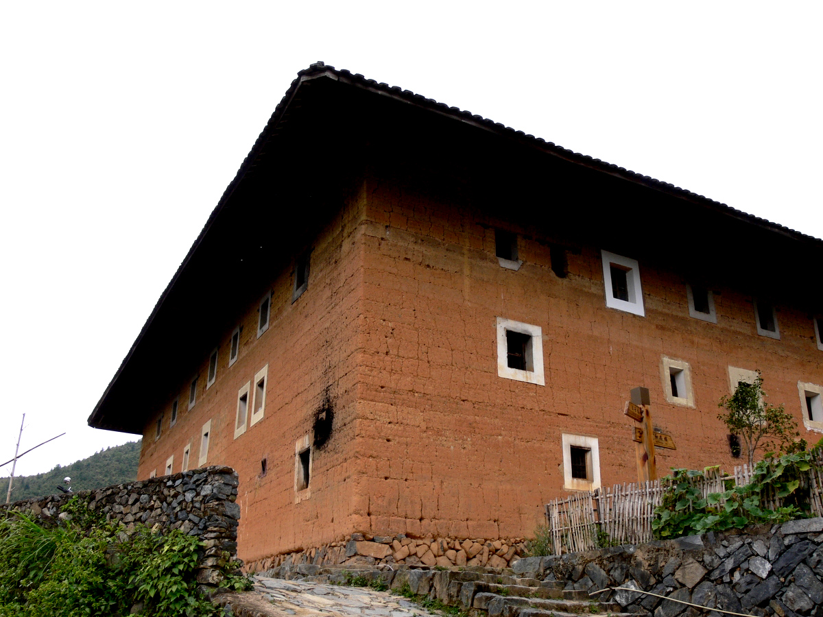 Square shape Buyunlou in Tianluokeng cluster 中文（中国大陆）: 田螺坑方形土楼 步云楼